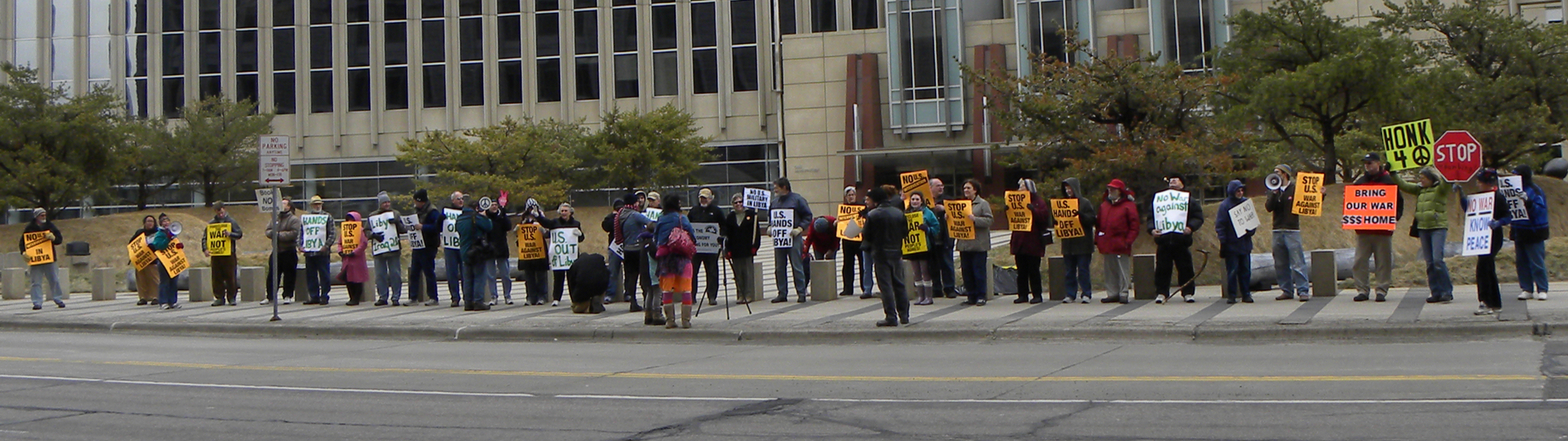 Protest in Minneapolis, Minnesota on March 21, 2011 against US military action in Libya